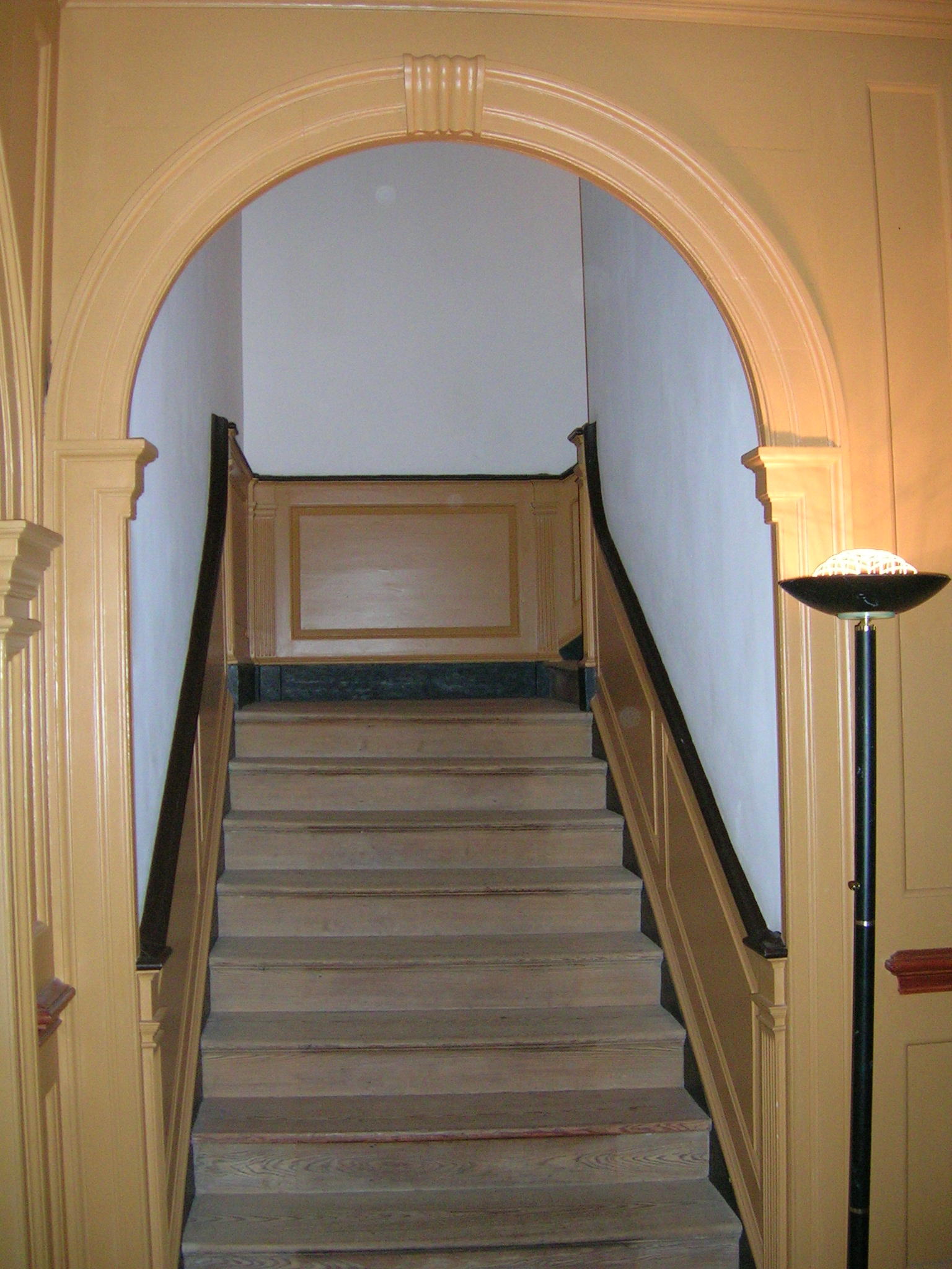 Stairway in Hope Lodge